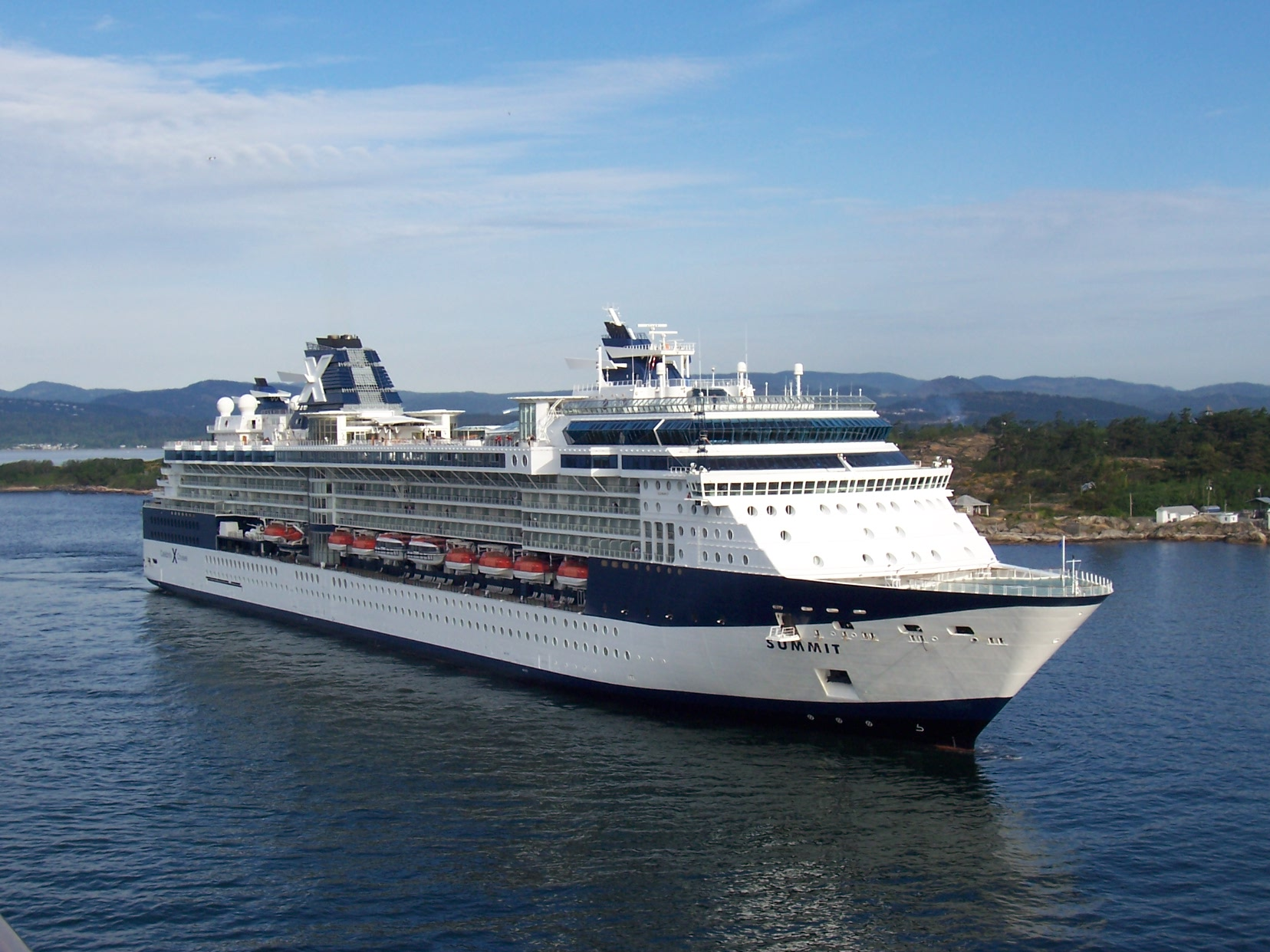 The Summit in Victoria, British Columbia, Canada. Originally uploaded at enwiki by me on 2006-06-04. IMO Number: 9192387 MMSI Number: ? → 249047000 Callsign: ? → 9HJC9 Length: 294 m Beam: 32 m